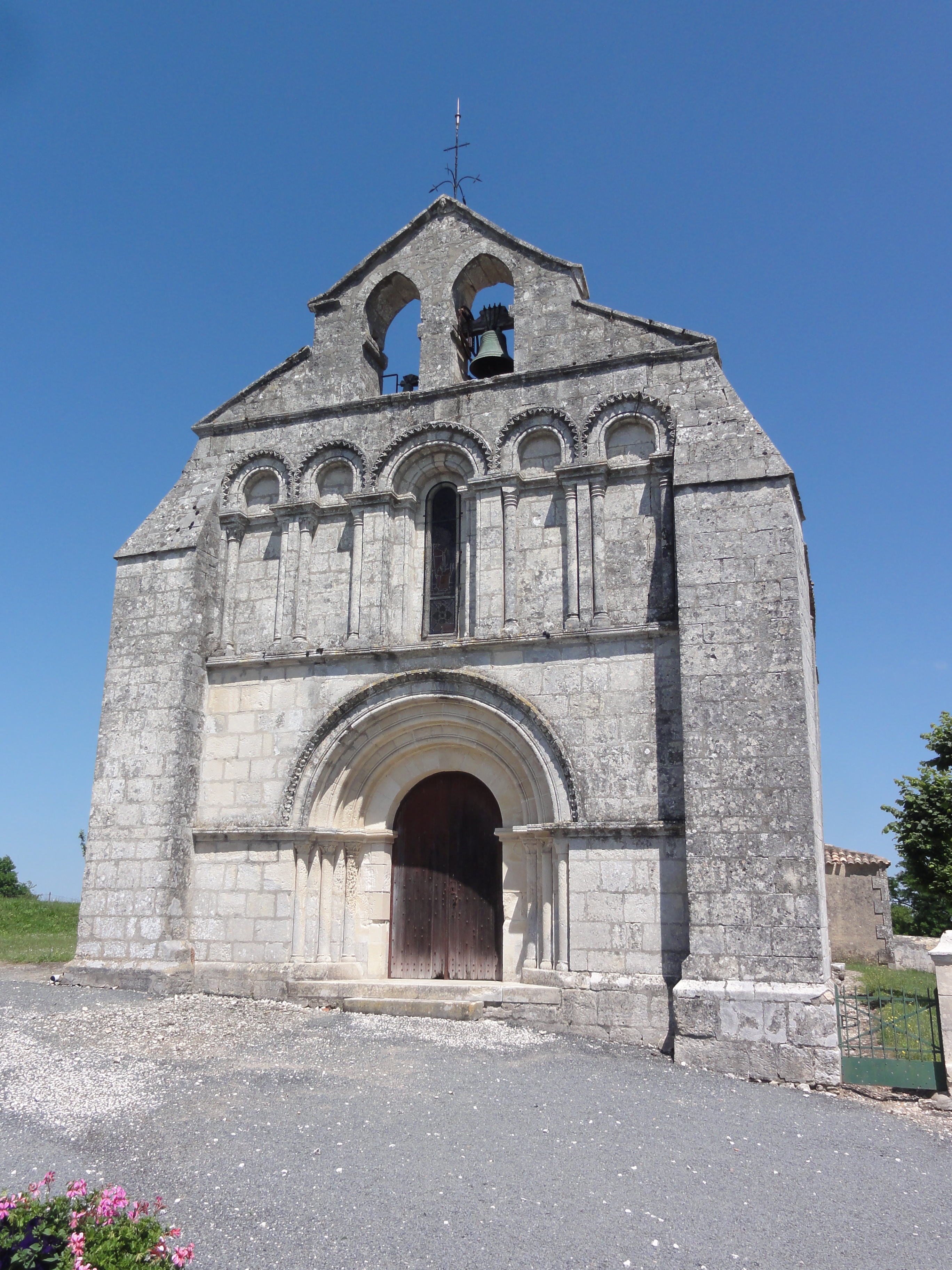 Saint-Palais (Gironde) église, extérieur